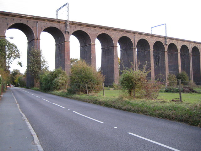 Digswell or Welwyn Viaduct The viaduct was completed in 1850 by the Great Northern Railway to take its new line to the north from London over the valley of the River Mimram. A contemporary newspaper report on the opening of the railway from The Times described it as "...consisting of 42 arches each 30 feet wide and 97 feet high and built at a cost between £70,000 and £80,000. The masonry has all the appearance of great solidity..." As well it might as 159 years further on it still has all the appearance of great solidity! This is the view of 10 of the 42 arches taken looking along Hertford Road.